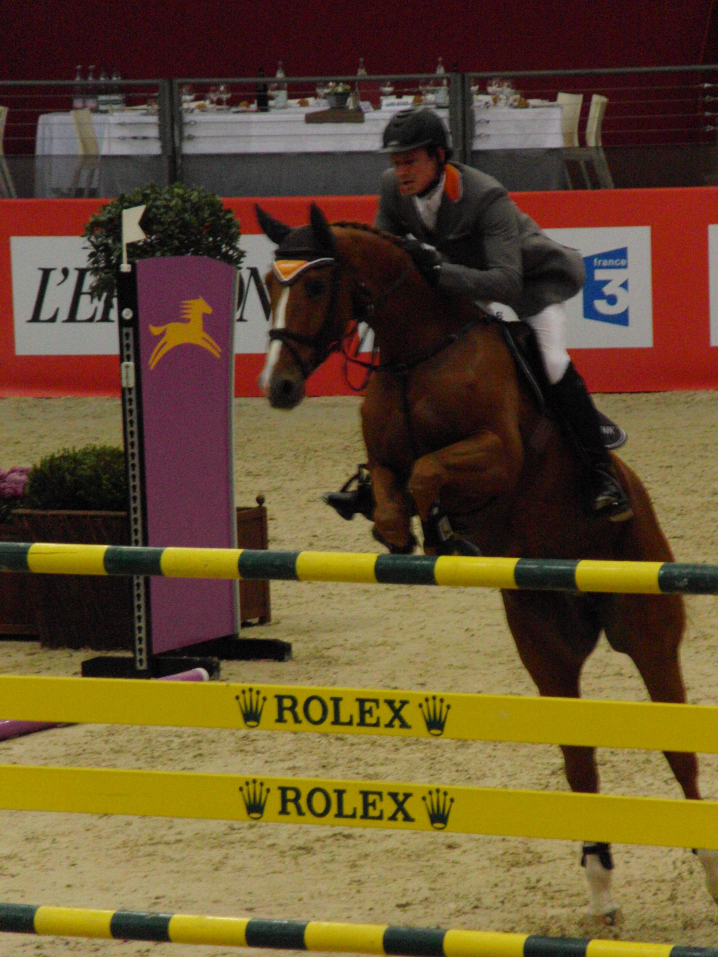 Marco Kutscher and Allerdings - CSIW5* Prix Equidia - Equita'Lyon, France